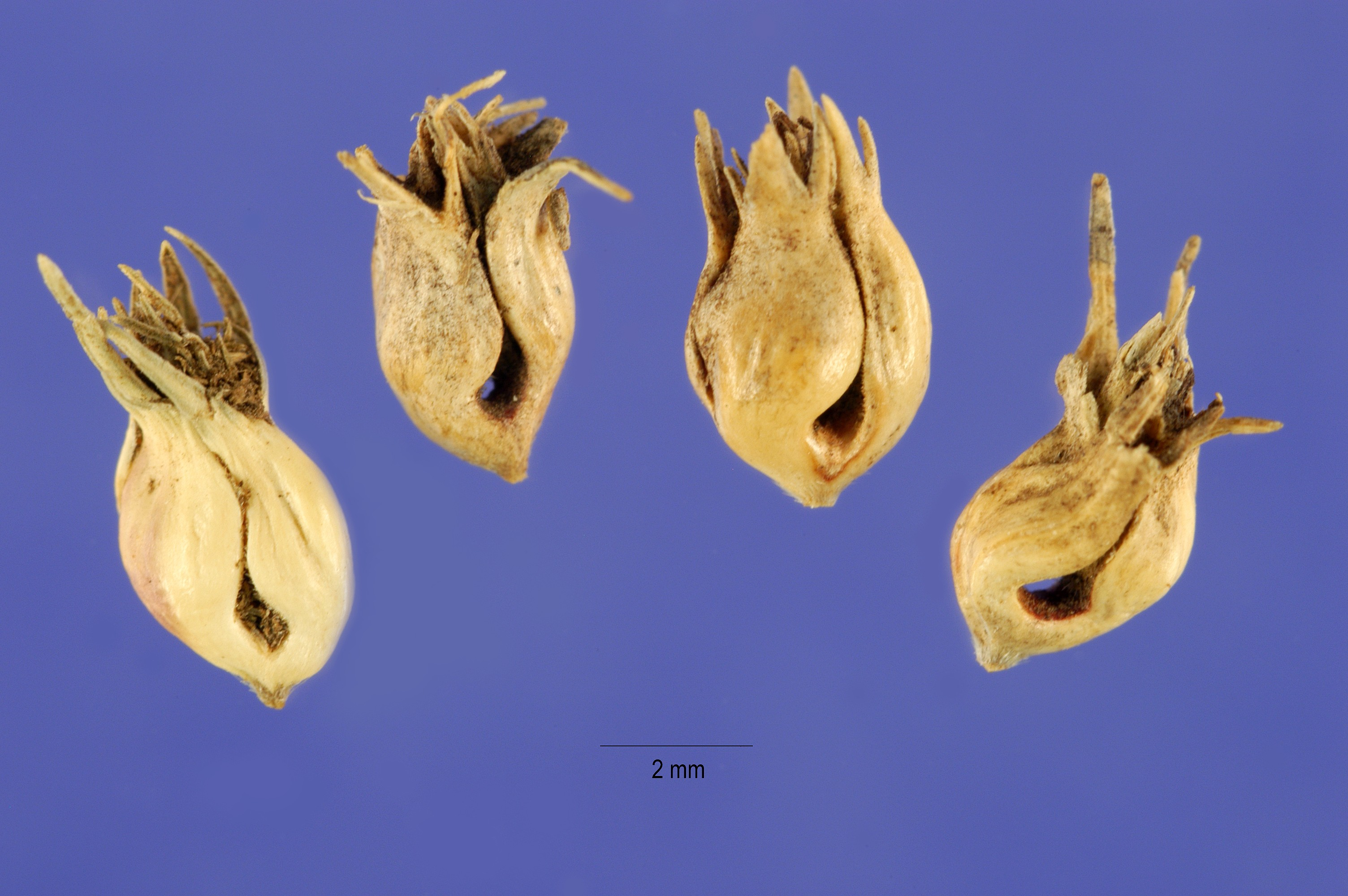 Bouteloua dactyloides - Buffalo grass. from Steve Hurst. Provided by ARS Systematic Botany and Mycology Laboratory.